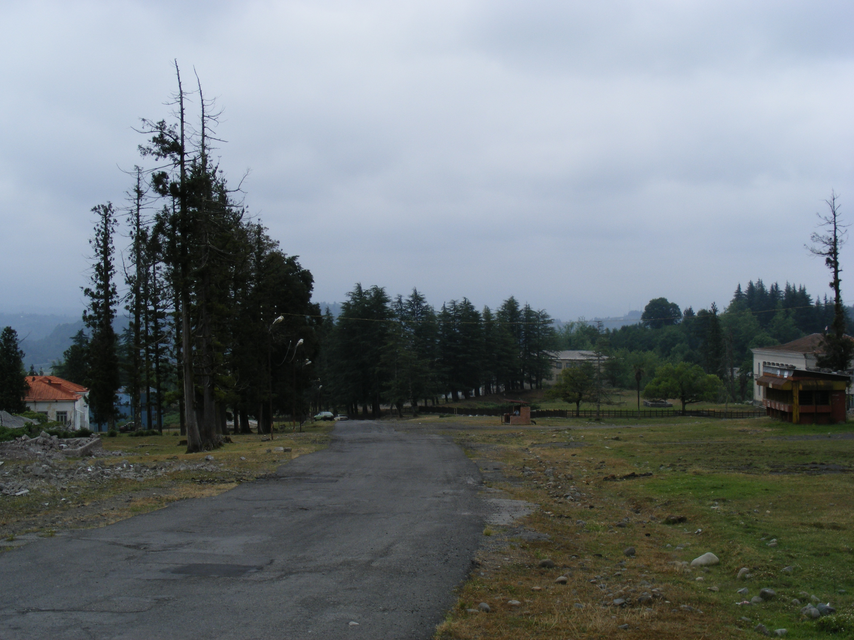 village dzimiti